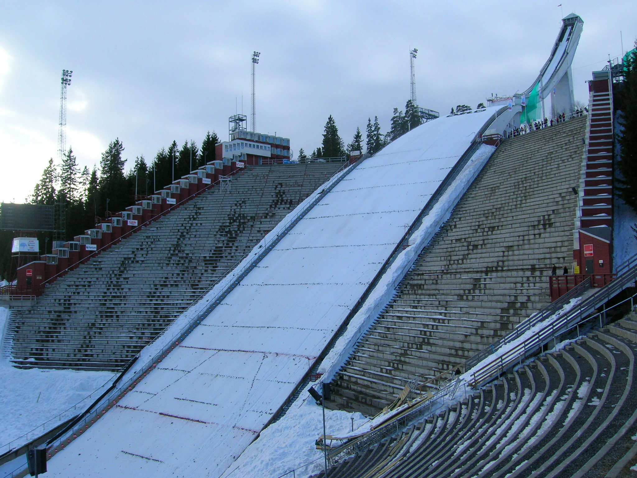 So this is what a ski jump looks like